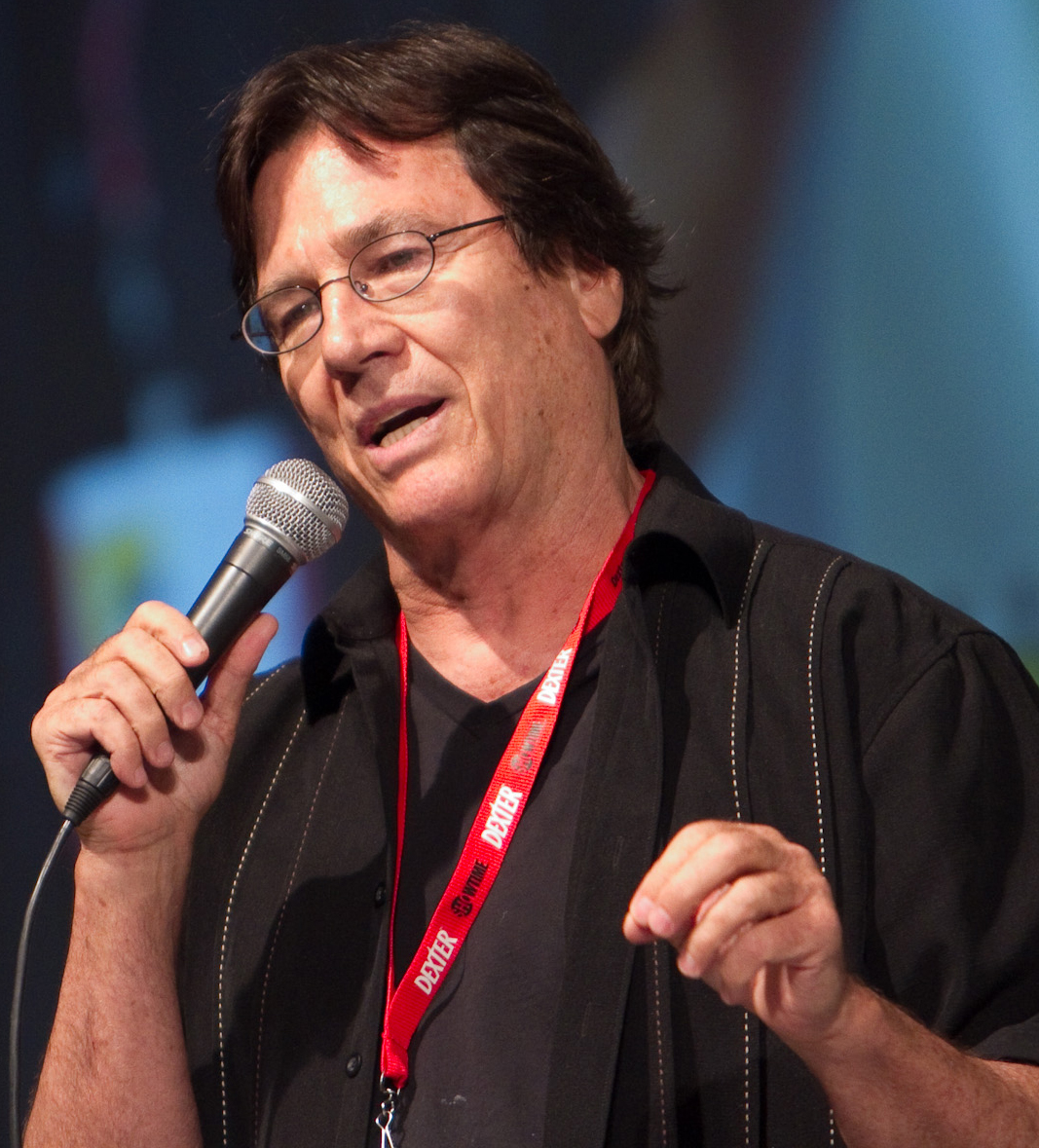 Richard Hatch at a San Diego Comic-Con panel in July 2010.